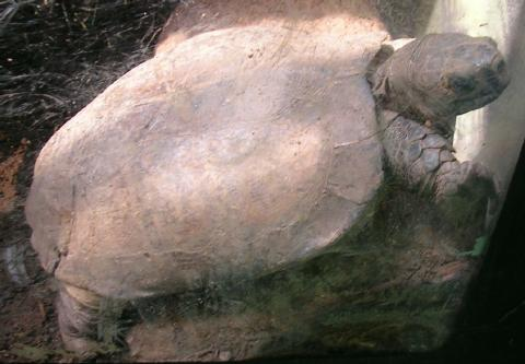 Arakan Forest Turtle (Heosemys depressa) at Zoo Atlanta